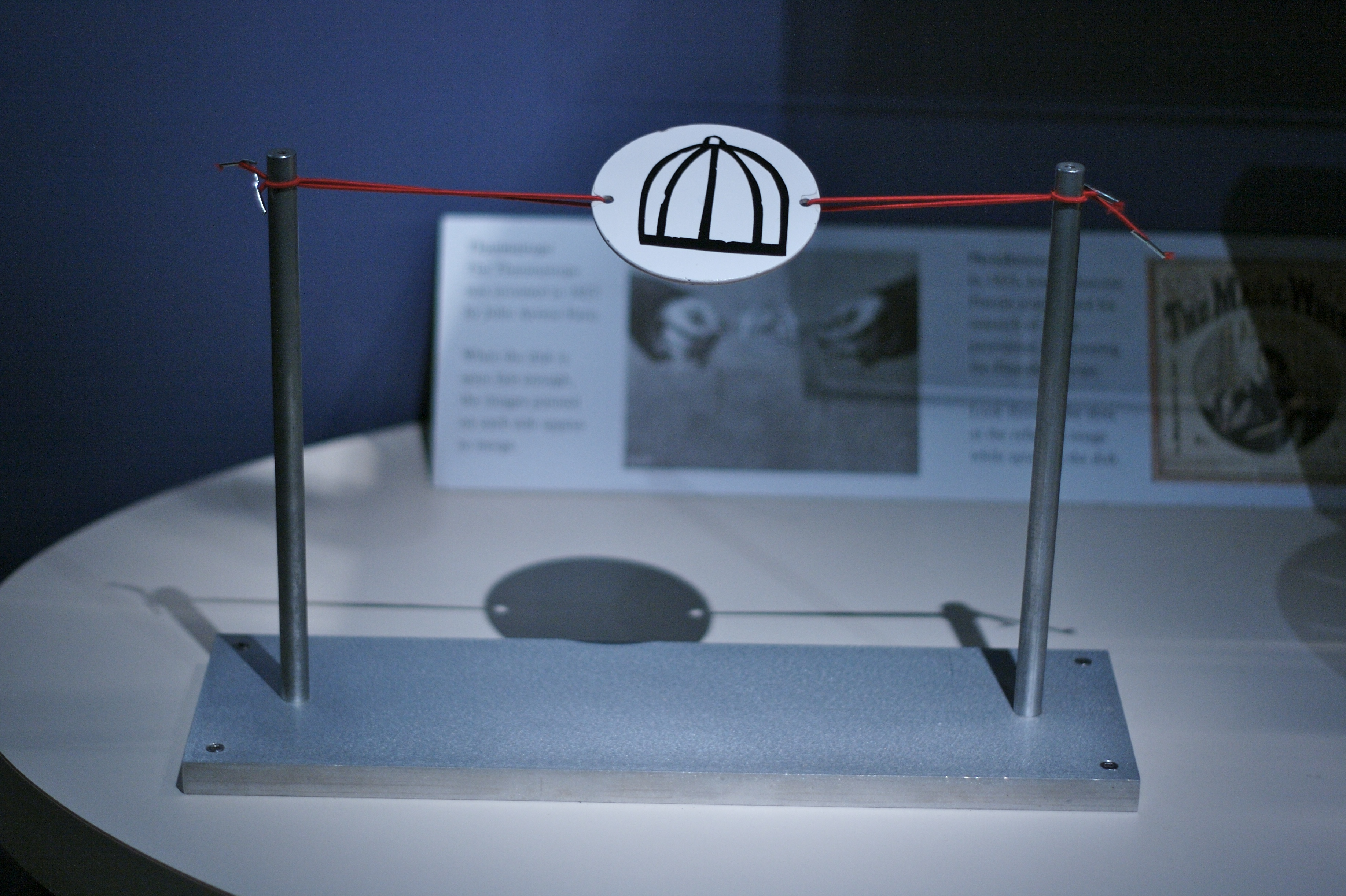 Thaumatrope – a simple device using persistence of vision to create a joint image (a bird in a cage) from two separate ones.